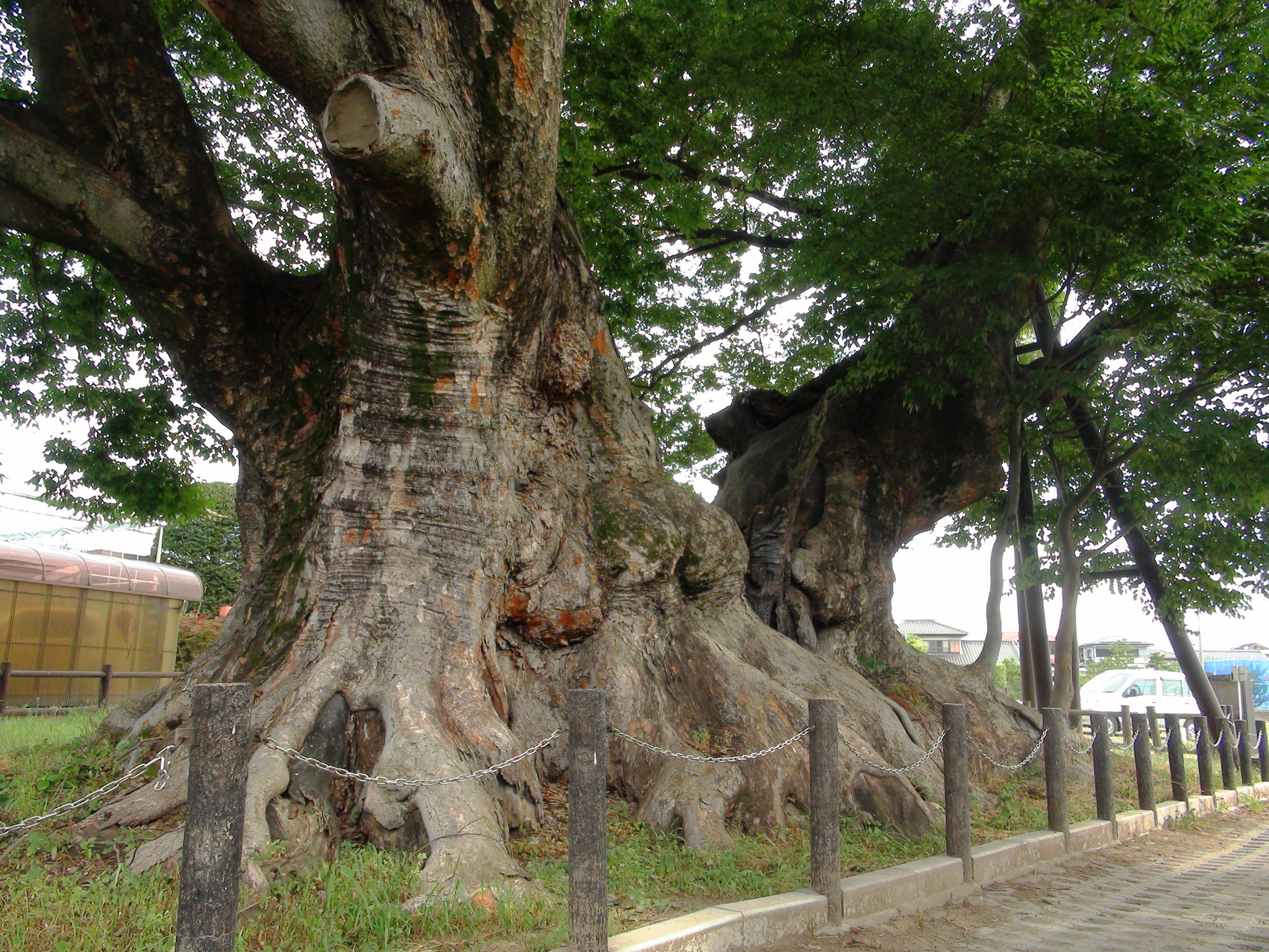 Mitsue-no-Okeyaki Zelkova serrata Natural monument of Japan